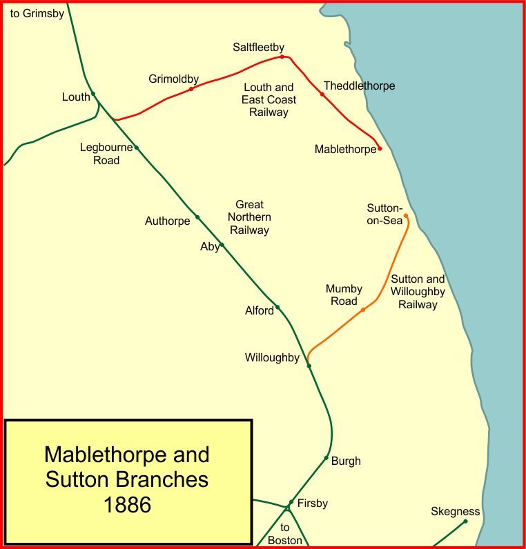 System map of the Louth and East Coast Railway and the Sutton and Willoughby Railway, Lincolnshire, England, in 1886